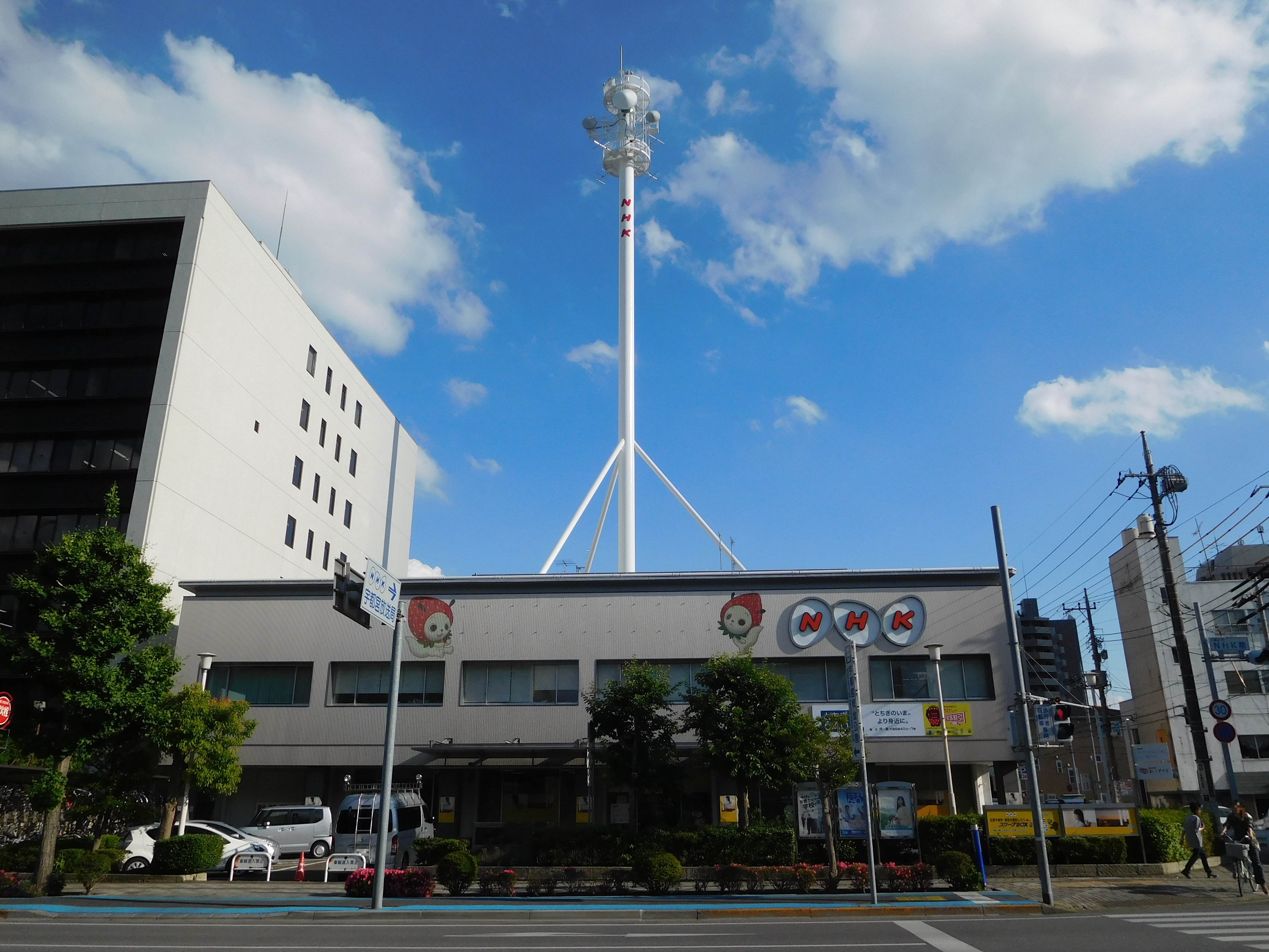 This is NHK Utsunomiya in Utsunomiya, Tochigi, Japan.